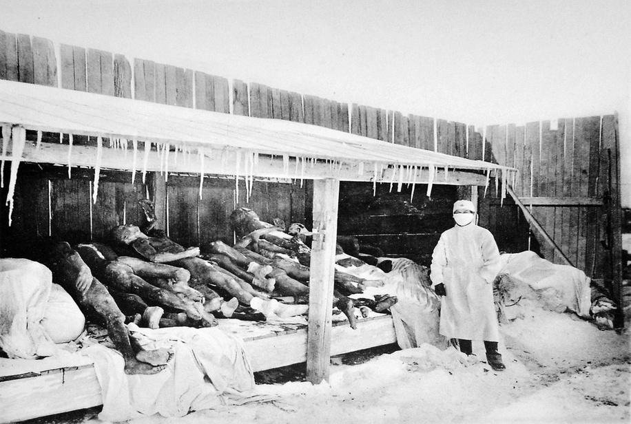 Picture of Manchurian Plague victims in 1910 -1911 that has been historically mislabeled as "Body disposal at Unit 731" A much higher resolution photo, with Russian text stating that these were "Dead plague bodies held in storage awaiting scientific research" can be seen here: трупы чумныхЪ на трупномЪ двор чумного пункта оставленные дляѢ научныхЪ изслѢвдованій, see also : История России до 1917 года